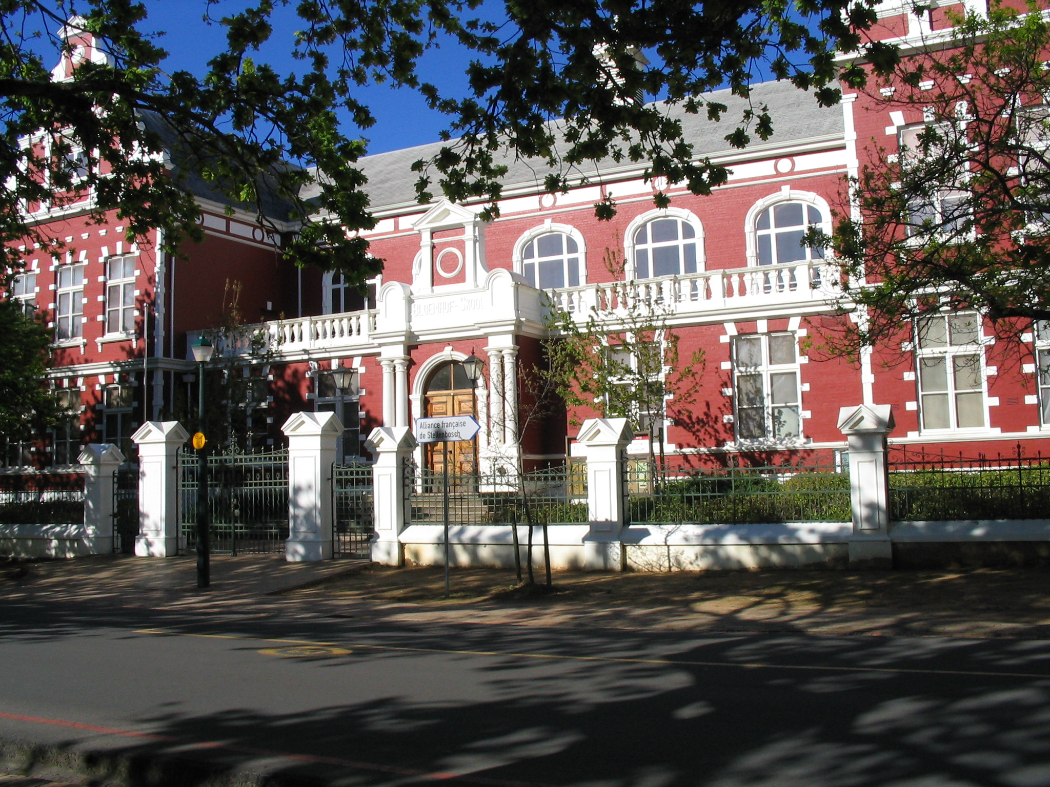 The Old Bloemhof Girls' Primary School building (now Eben Dönges Centre) at 52 Ryneveld Street in Stellenbosch houses the Sasol Art Museum, being one of the two buildings housing the Stellenbosch University Museum (the other is the First Lutheran Church building at the corner of Dorp and Bird Streets). This media shows a South African Protected Site with SAHRA file reference 9/2/084/0147.